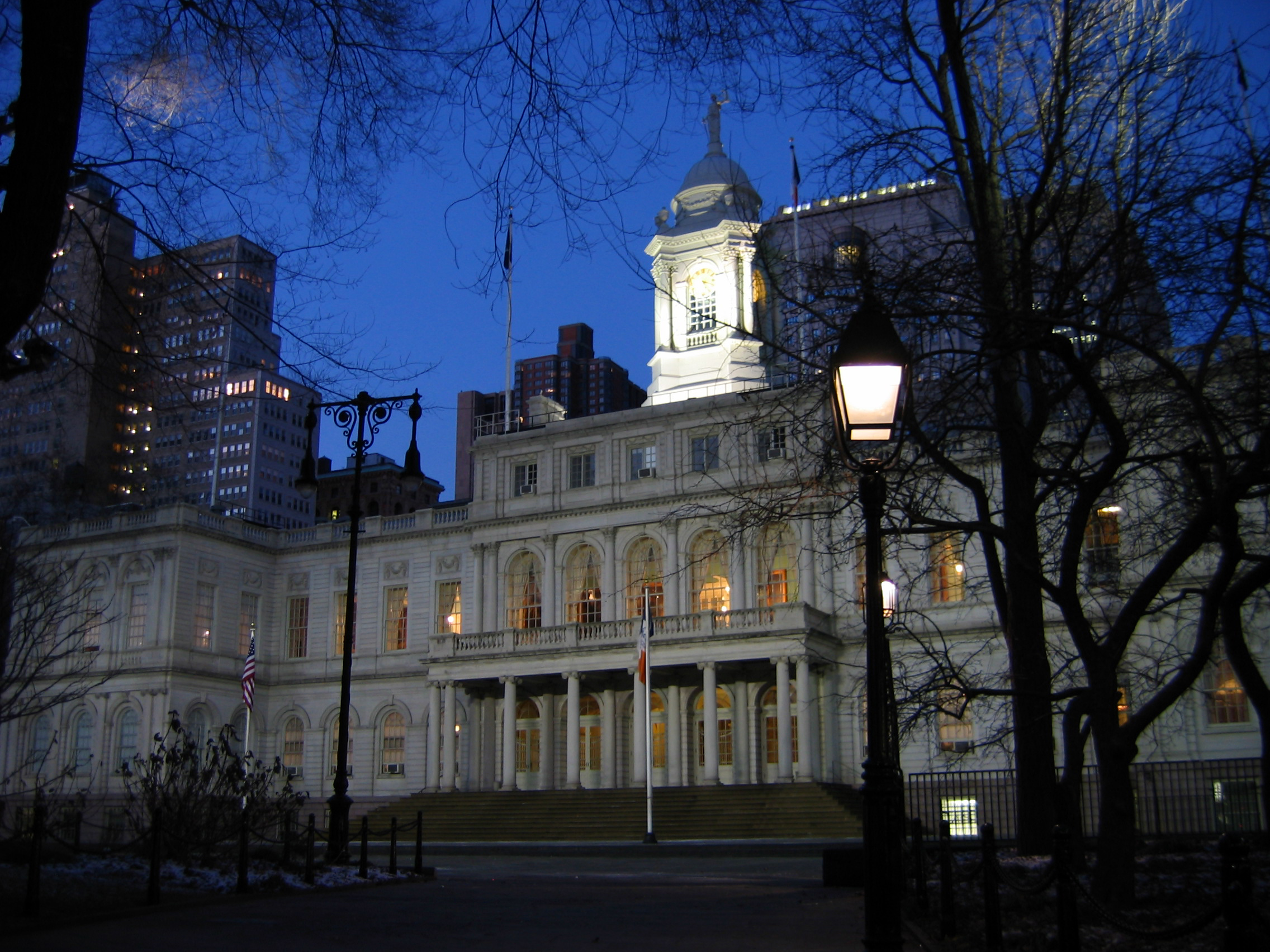 New York City Hall at night